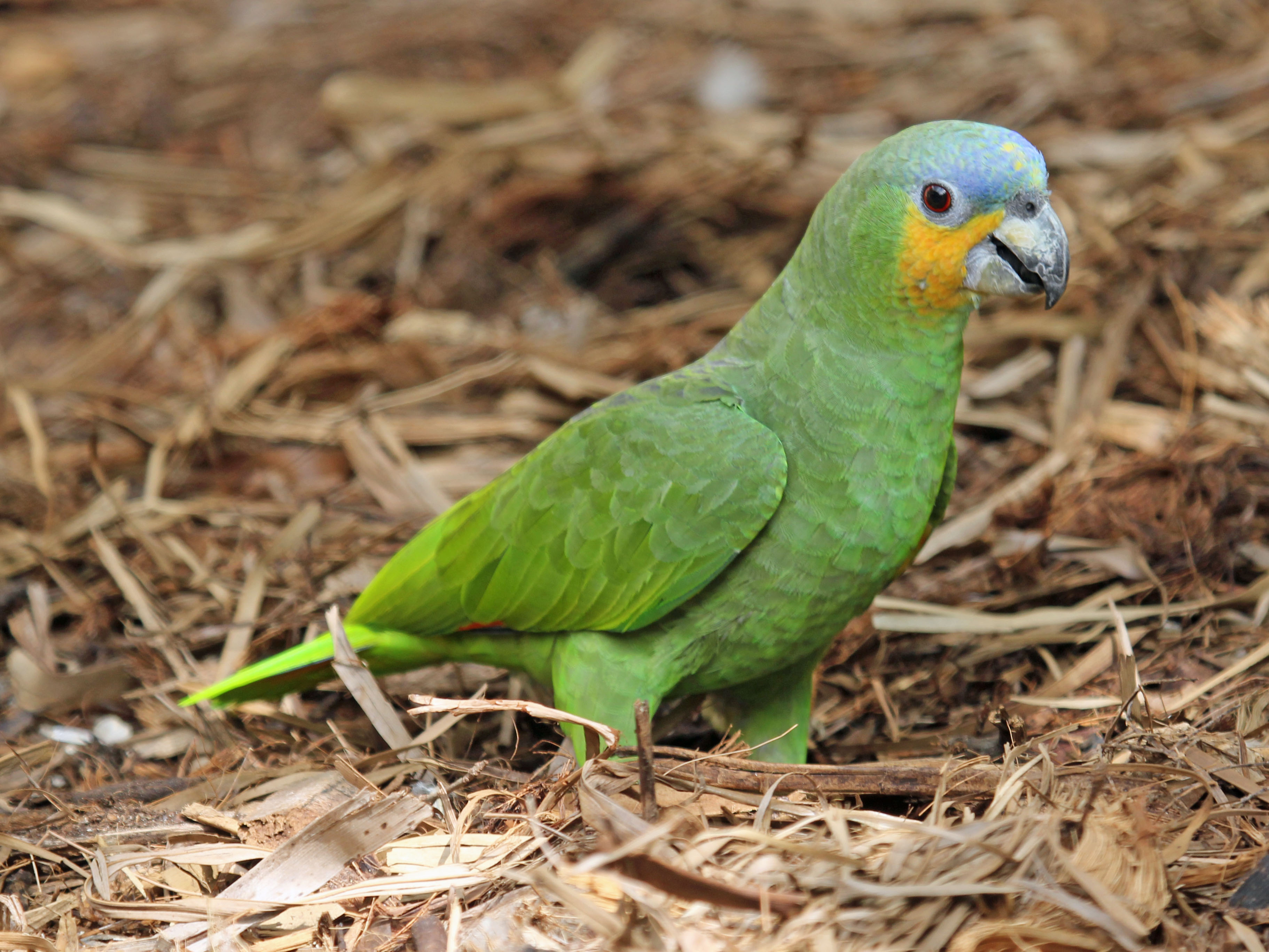 Orange-winged Amazon at Jungle Island of Miami, Florida